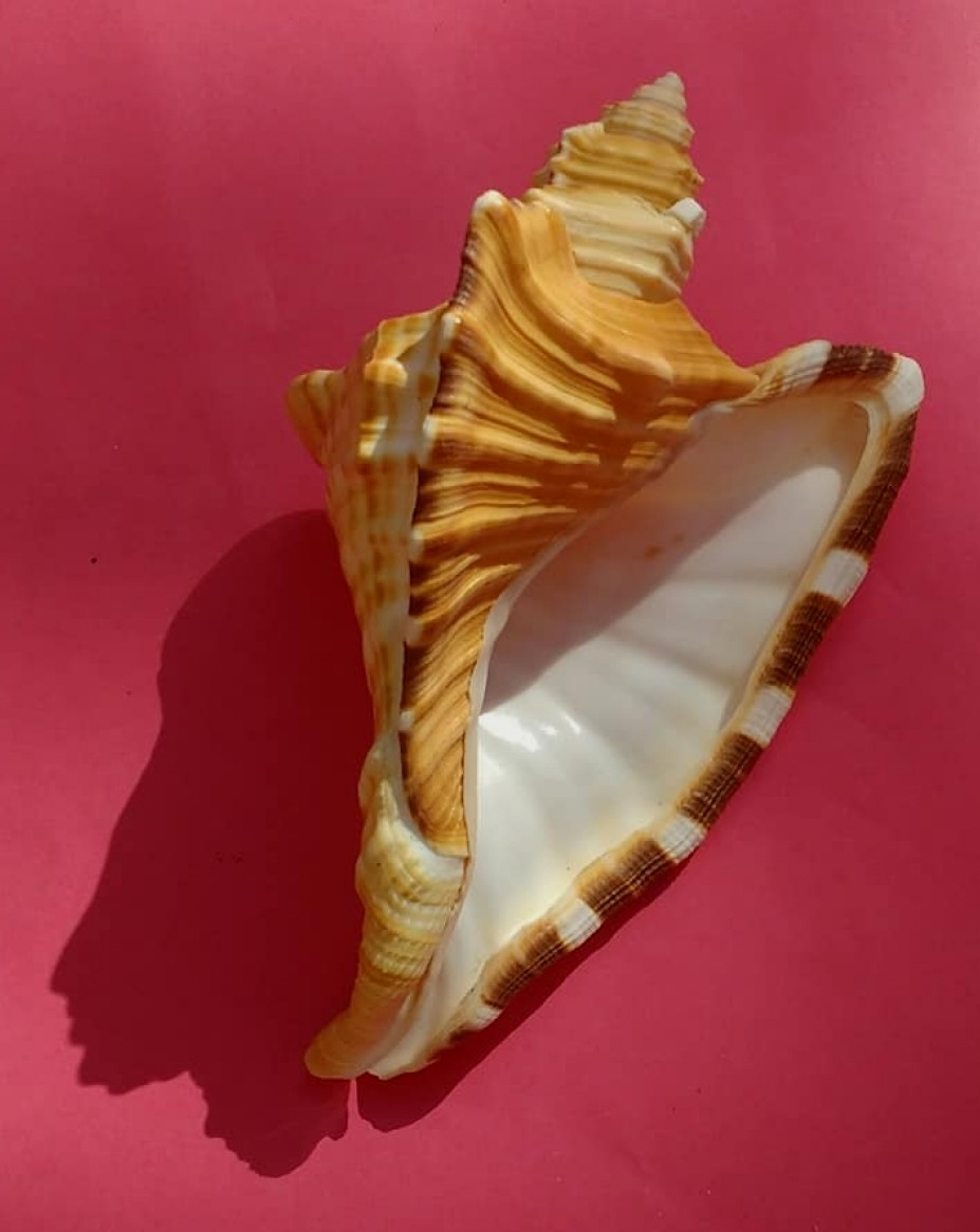 Seashell (underside view) belonging to the mollusk Cymatium raderi D'Attilio & Myers, 1984[1] and collected in the northeast coast of Brazil.